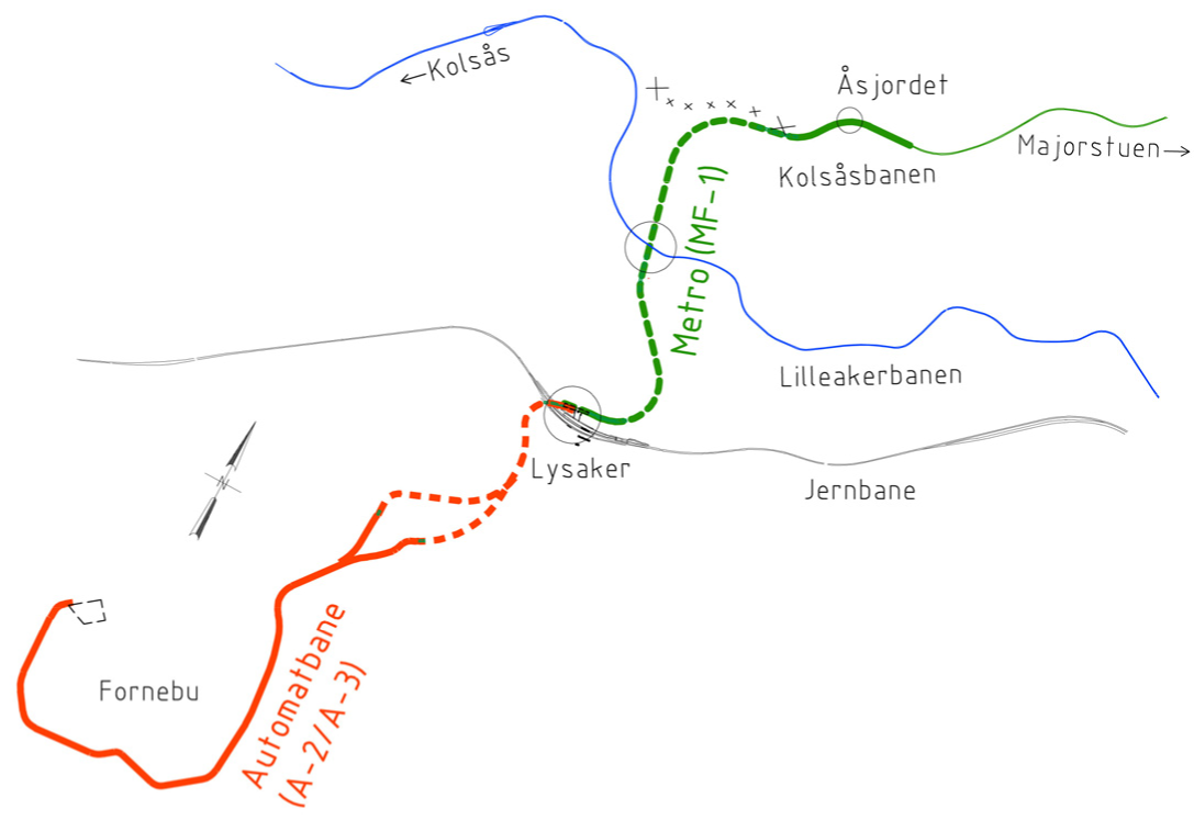 Map of a proposed route for a people mover at Fornebu, with a proposed extension of the metro in green.